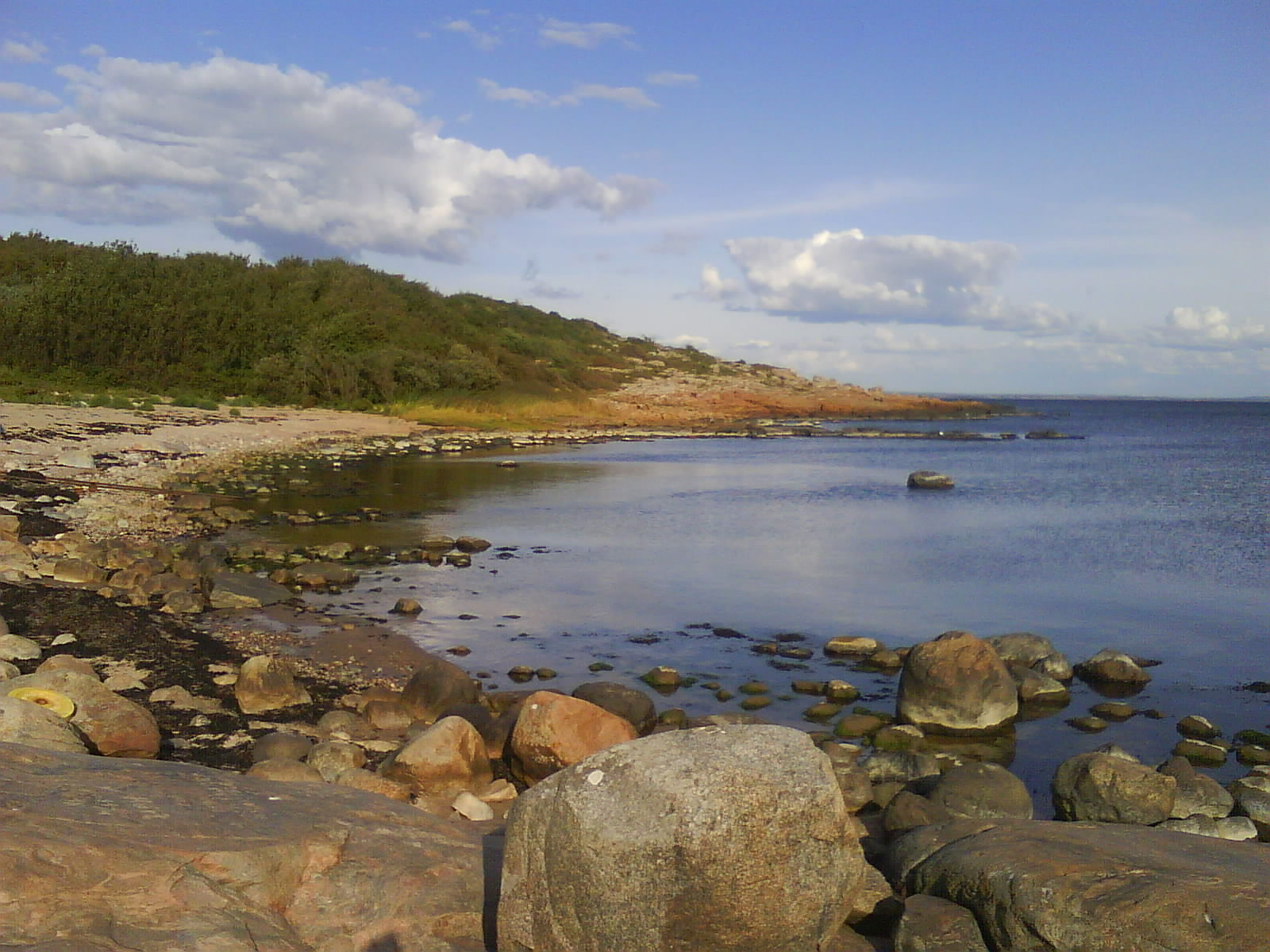 Tjuvahalan to the left